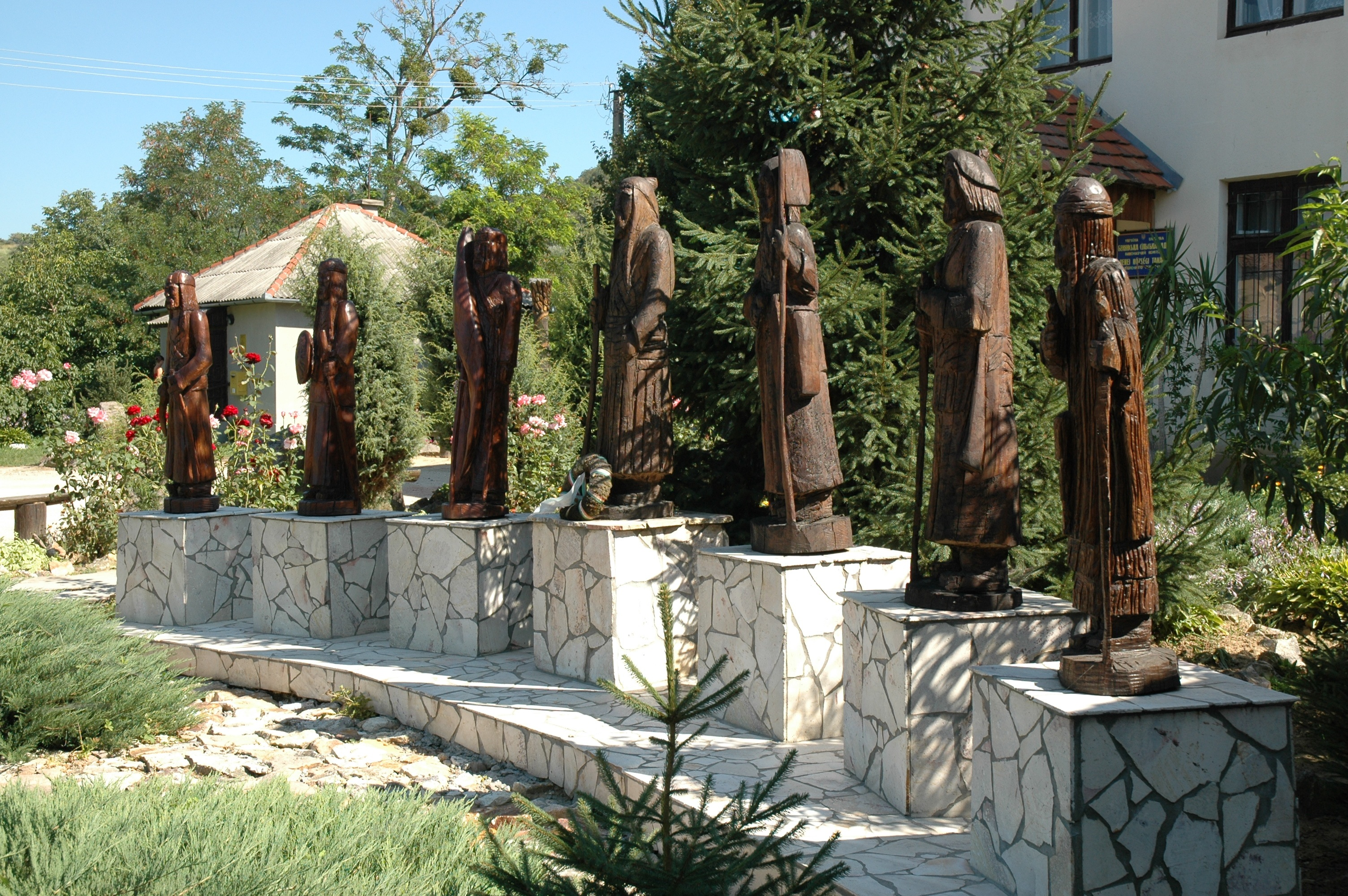 Wooden scuplturs of Seven chieftains of the Magyars in Bene village (Transcarpathian region, Ukraine)